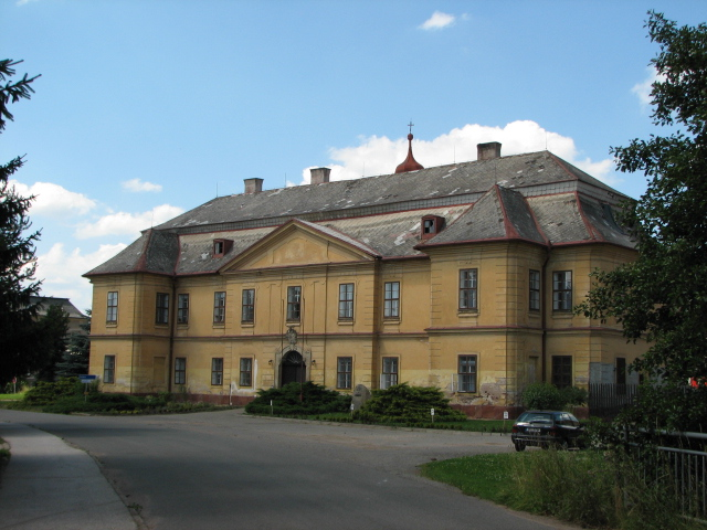 Meziměstí - chateau